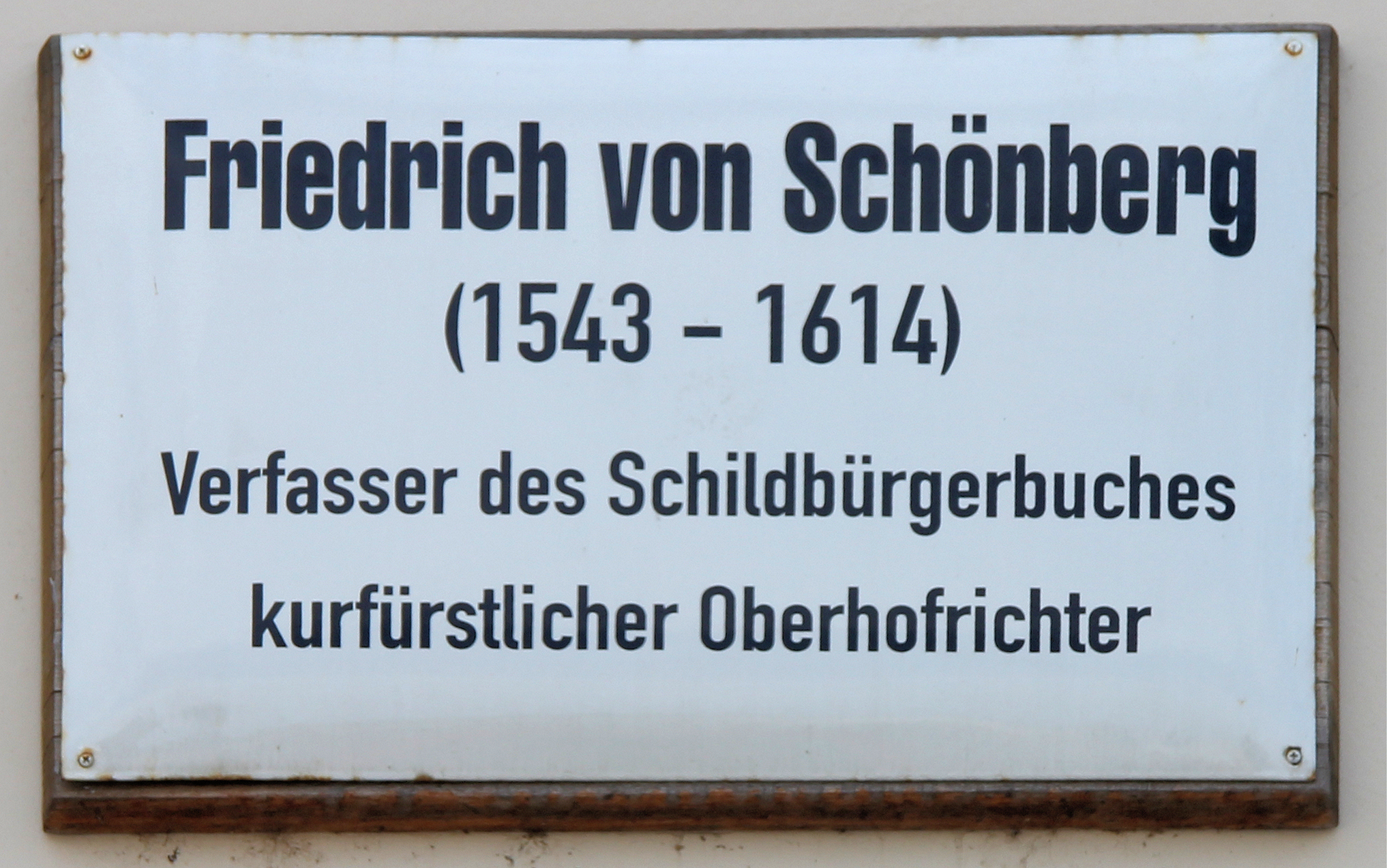 Memorial plaque, Johann Friedrich von Schönberg, Schloßstraße 14-15, Lutherstadt Wittenberg, Germany Koordinate:51°51′59″N 12°38′23″E / 51.86639°N 12.63972°E